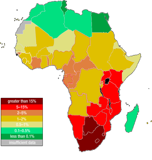 Estimated HIV prevalence among young adults (15-49) by country.